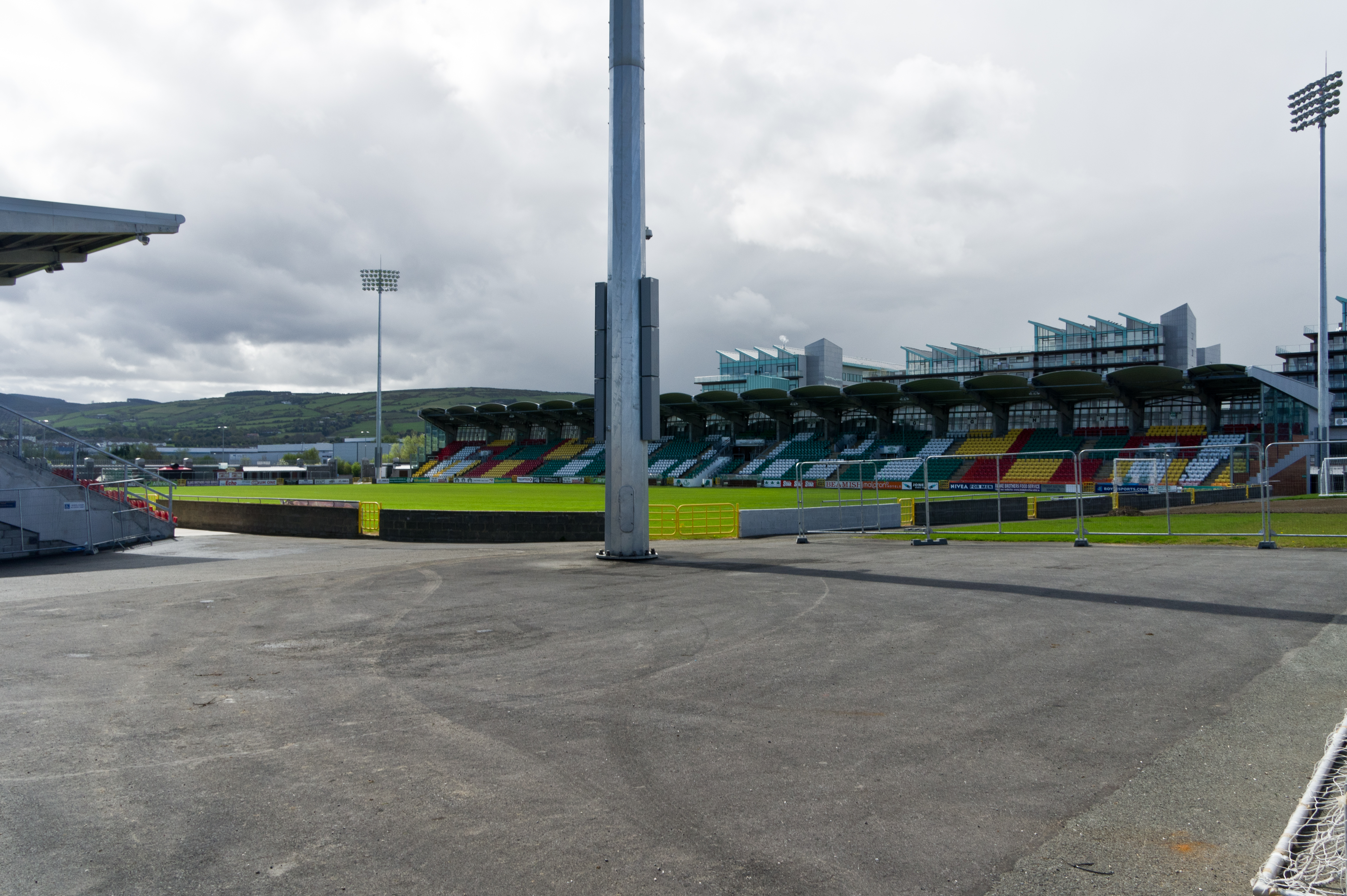 Tallaght Stadium is a football stadium in the Southside suburb of Tallaght. Shamrock Rovers originally announced details of the stadium back in July 1996. The stadium is owned and operated by South Dublin County Council with Shamrock Rovers as the anchor tenants. The main stand seats 3,048 and holds home supporters, away supporters, club officials and press. A second stand seating 2,899 on the opposite (east) side of the ground, was completed in August 2009. This stand holds the stadium's TV gantry and has brought the seating capacity to 5,947. Both stands are covered. There are no stands currently in place behind the goals. Refreshment stalls are located at the southern end as is a stadium control room. Temporary seating has twice been constructed at the stadium. Once for a club friendly against Real Madrid which gave the ground a temporary capacity of 10,900 and again before the 2009 FAI Cup Final, giving the ground a temporary capacity of 8,800. Located behind the main stand is the Shamrock Rovers club shop jointly operated by Rovers and kit suppliers Umbro. Also onsite at the stadium is the 'Glenmalure Suite' open to club members on match days.